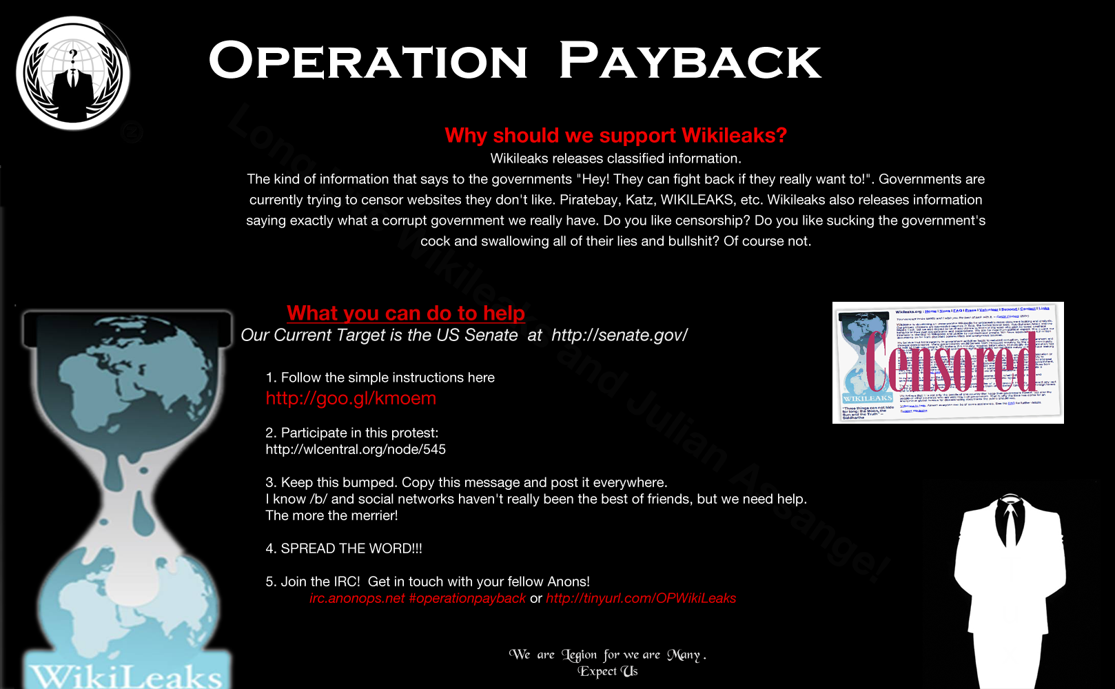 Operation Payback flyer